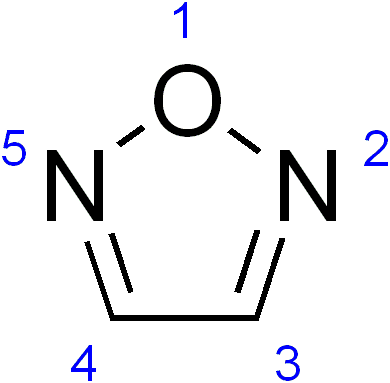 chemical structure of furazan